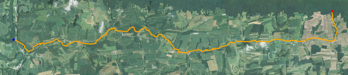 Satellite map of Schwaben Creek . The red dot is the stream's source and blue dot is its mouth. Data available from U.S. Geological Survey, National Geospatial Program.